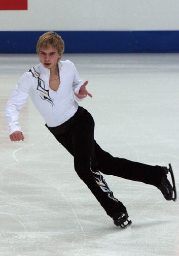 Andrei LUTAI (RUS) at the 2009 European Figure Skating Championships